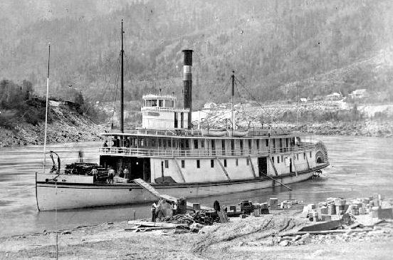 Sternwheel steamboat R.P. Rithet at Yale, BC on the Fraser River.